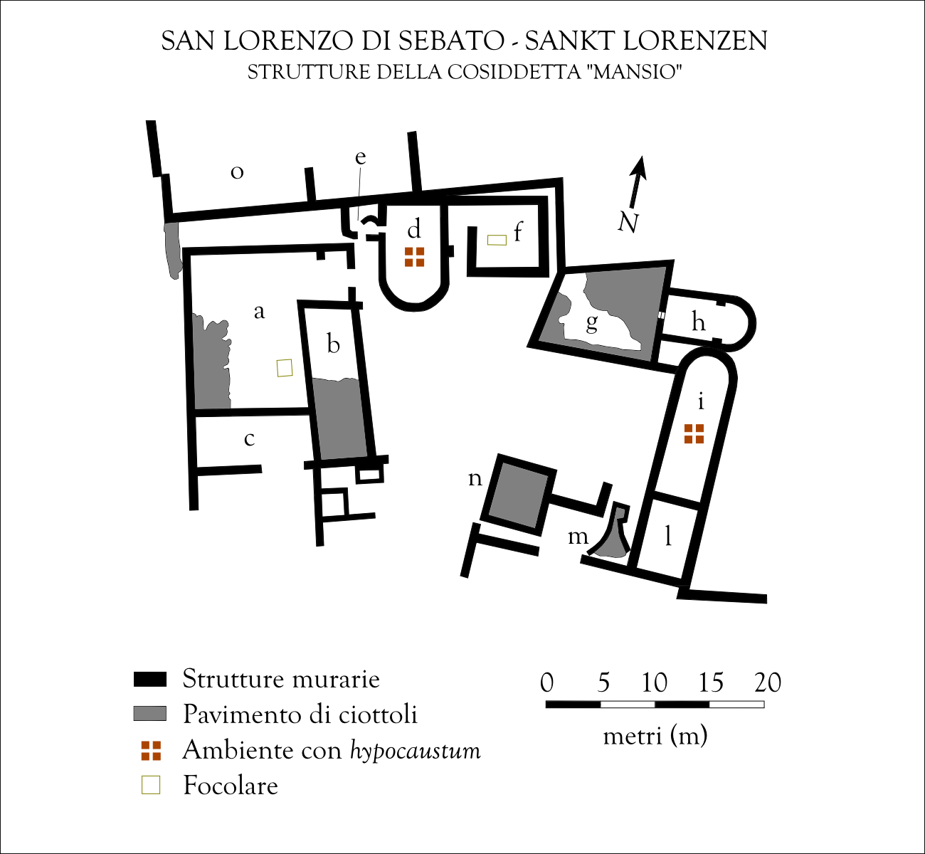 Plan of the "mansio" of Sebatum (San Lorenzo di Seabato/Sankt Lorenzen, South Tirol, Italy)